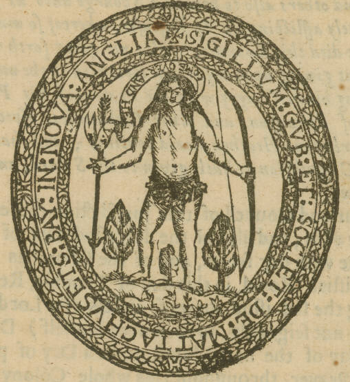 emblem of Massachusetts, New England, 17th c.